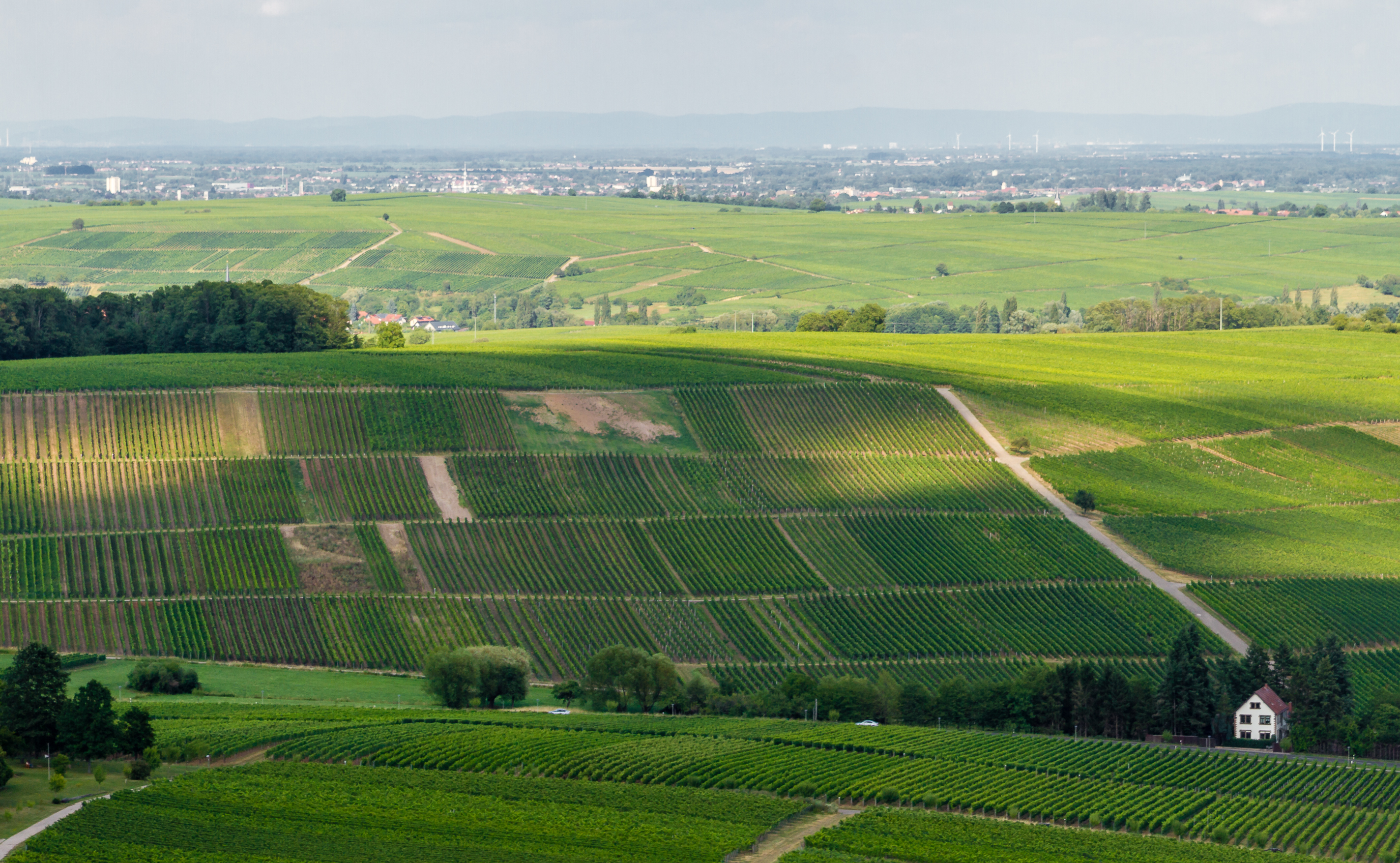 Title: View from Burg Landeck to the west at the vineyards Designation 1: Palatinate Forest Nature Park Type 1: Nature park Number 1: NTP-073-056 Year of the regulation 1: 1958 Designation 2: Biosphere reserve Palatinate Forest Type 2: Natura 2000 Number 2: 6812-301 Year of the regulation 2: 1998 Description: Bunter sandstone low mountain range with wide beeches and oaken old-growth forest. Rocks, streams and meadow valleys with varied standing water bodies. On the eastern edge calcareous dry grassland areas. With its very high forest share (76%), the nature park is the largest contiguous forest area in Germany. It is characterized by a diverse and impressive red sandstone landscape, rocks and acidophilous beech and pine forests as they show up anywhere else in Germany. Place: Municipality Klingenmünster, Collective municipality Bad Bergzabern, District Südliche Weinstraße, Rhineland-Palatinate, Germany Location: Burg Landeck